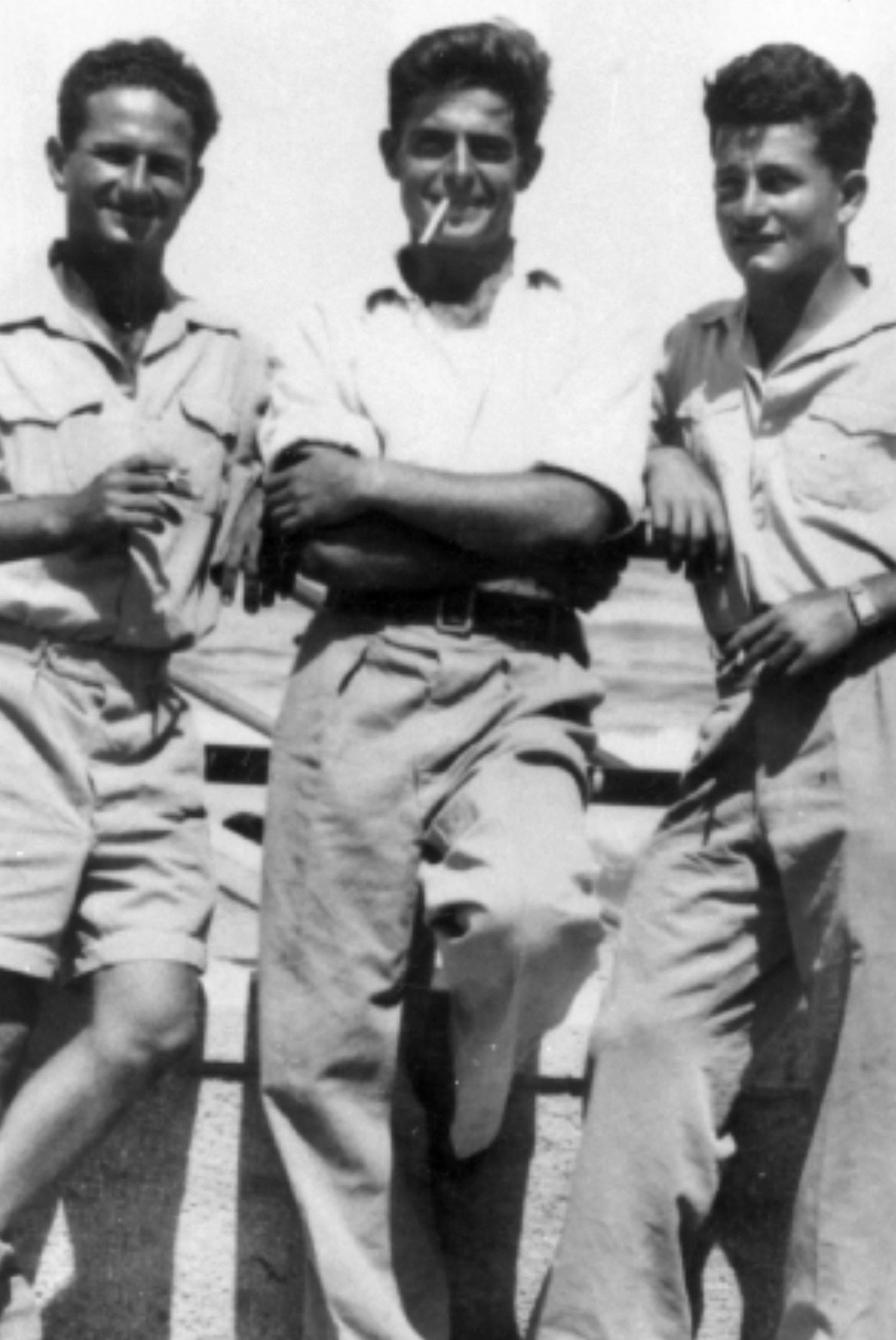 The Palmach, Israel Defense Forces